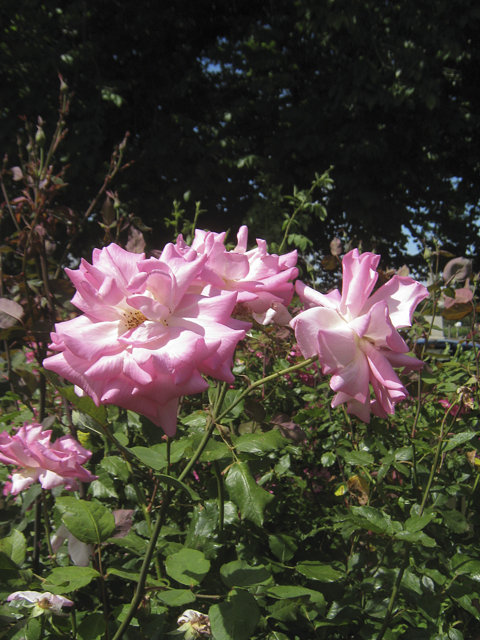 Rose 'Sunny South', Hybrid Tea by Alister Clark 1918; Photographed in the Alister Clark Memorial Rose Garden, Bulla, Victoria